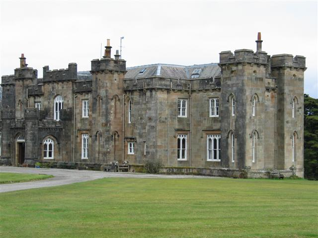 Torrisdale Castle. Home to the clan MacAlister Hall.